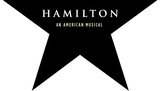 The star portion of the Hamilton Logo